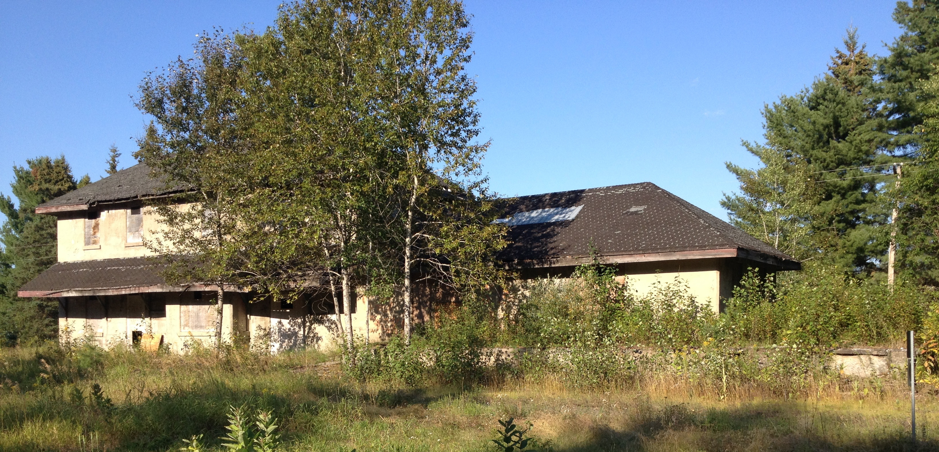 Image looking east-northeast at the abandoned railway station in Maynooth Station, about 2 km east of the town of Maynooth, Ontario. This was the northernmost major station on the Central Ontario Railway. It opened in 1907 and served as the service yard and offices for the railway for much of its history. According to a plaque just out of frame on the right, it is one of a few Ontario stations built using poured concrete.